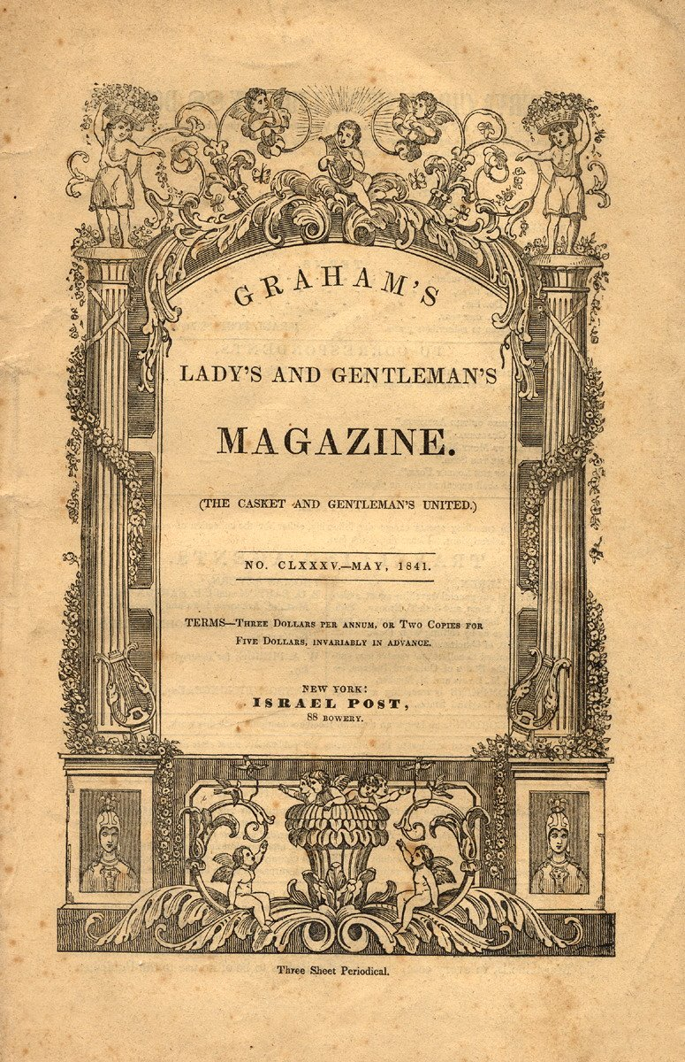 Graham's Lady's and Gentleman's Magazine, "Descent into the Maelstrom" by Edgar Allan Poe, New York.